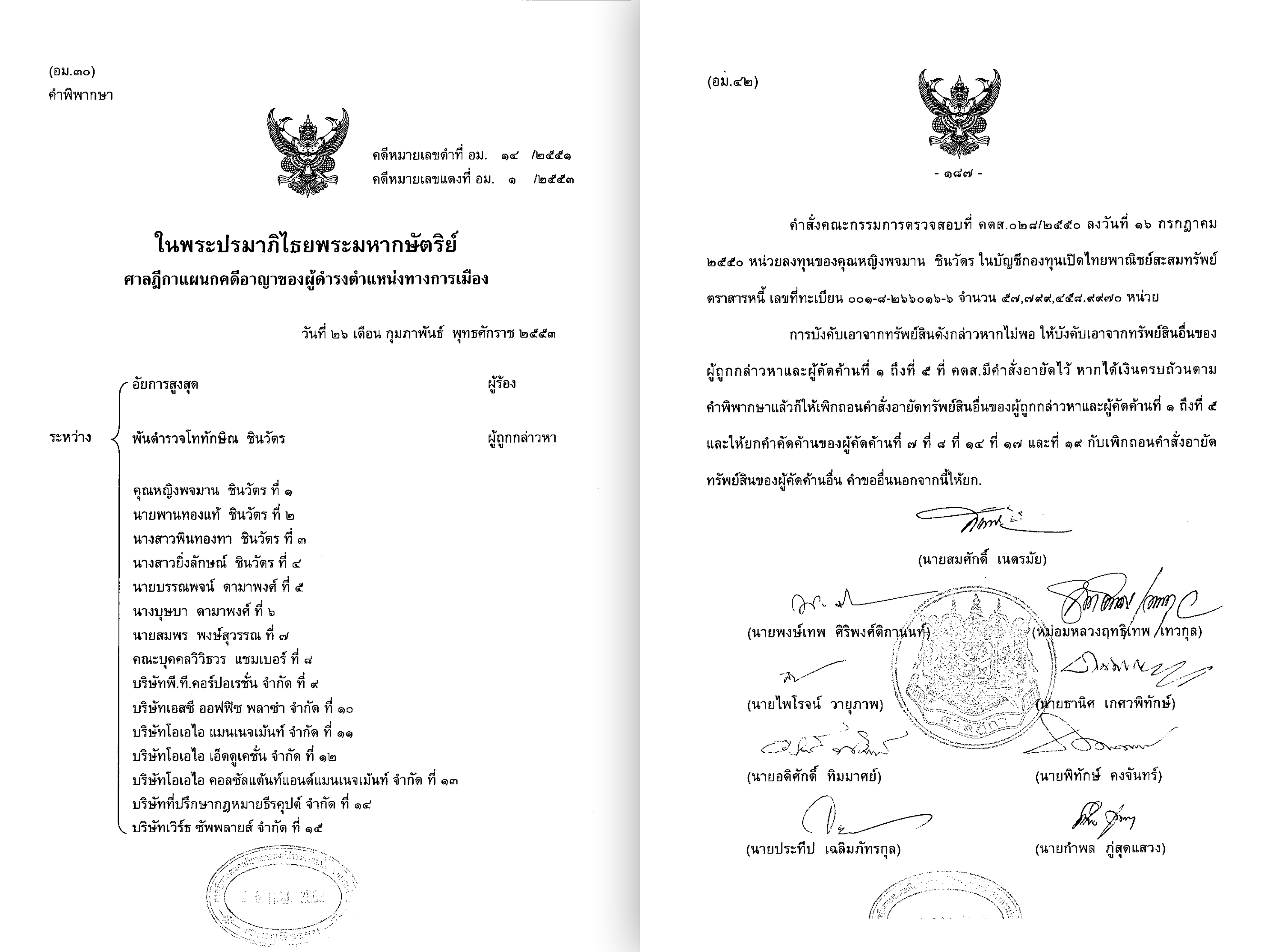 The first and last pages of the Judgment of the Supreme Court of Justice's Criminal Division for Holders of Political Offices in the Black Case No. CDHPO 14/2551 and the Red Case No. CDHPP 1/2553 between the Attorney General, Petitioner, Police Lieutenant Colonel Thanksin Shinawatra, Respondent, and Khunying Potjaman Shinawatra, et al., Contenders, Dated February 26, 2010, Re: Confiscatory Action. By the Judgment, the Court confiscated half of the Shinawatra family's fortune, after finding Thaksin guilty of abuse of power, malfeasance and policy corruption to benefit himself and his family. The last page contained the signatures of the nine judges constituting the Chamber in charge of this case.